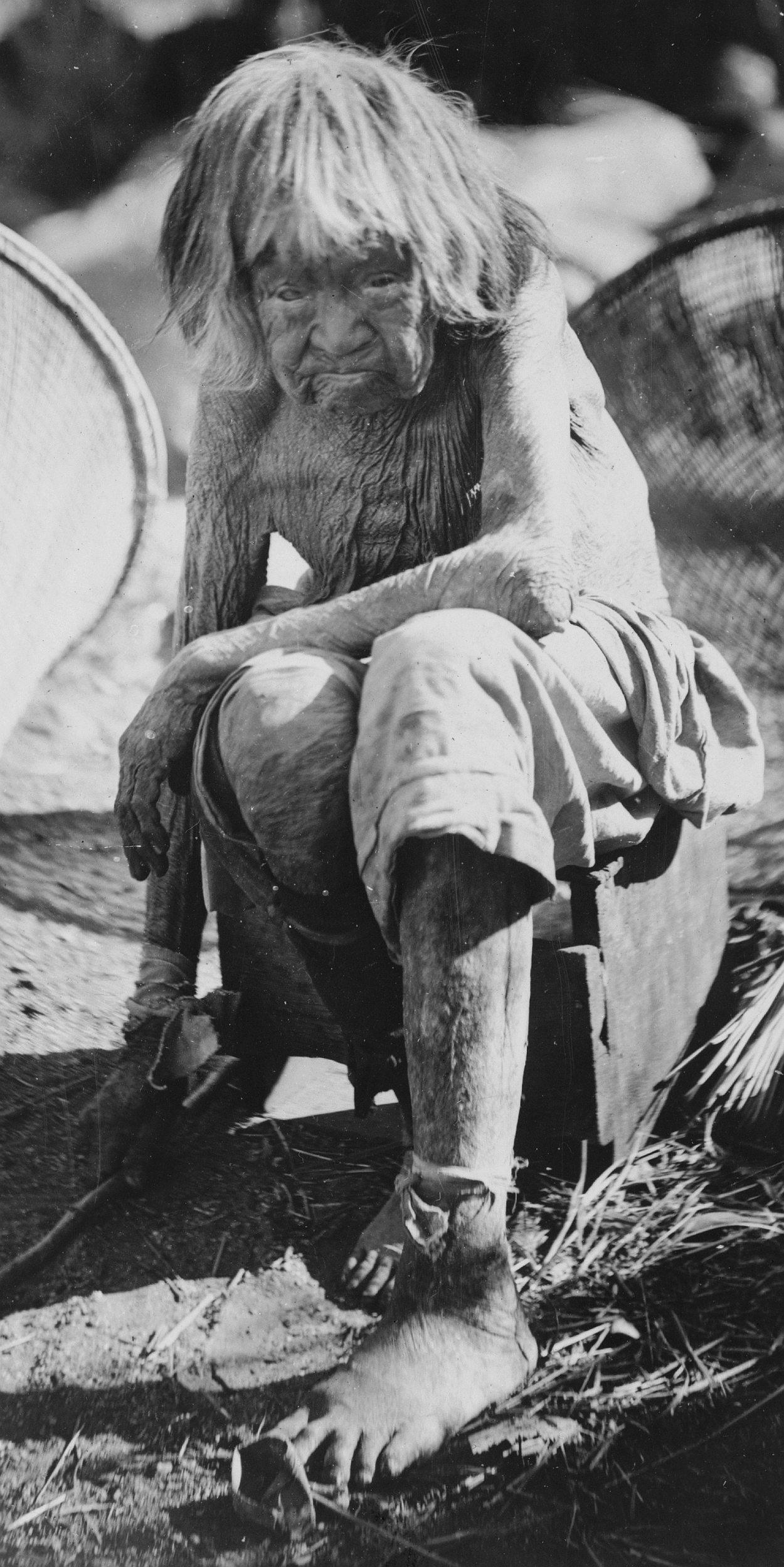 An old Paiute Indian woman with baskets, identified on mount as Teha, 120 years old (age unverified).